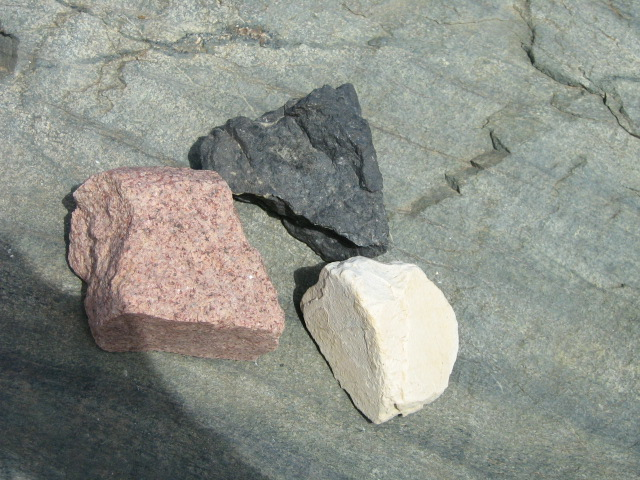 Geologycal samples